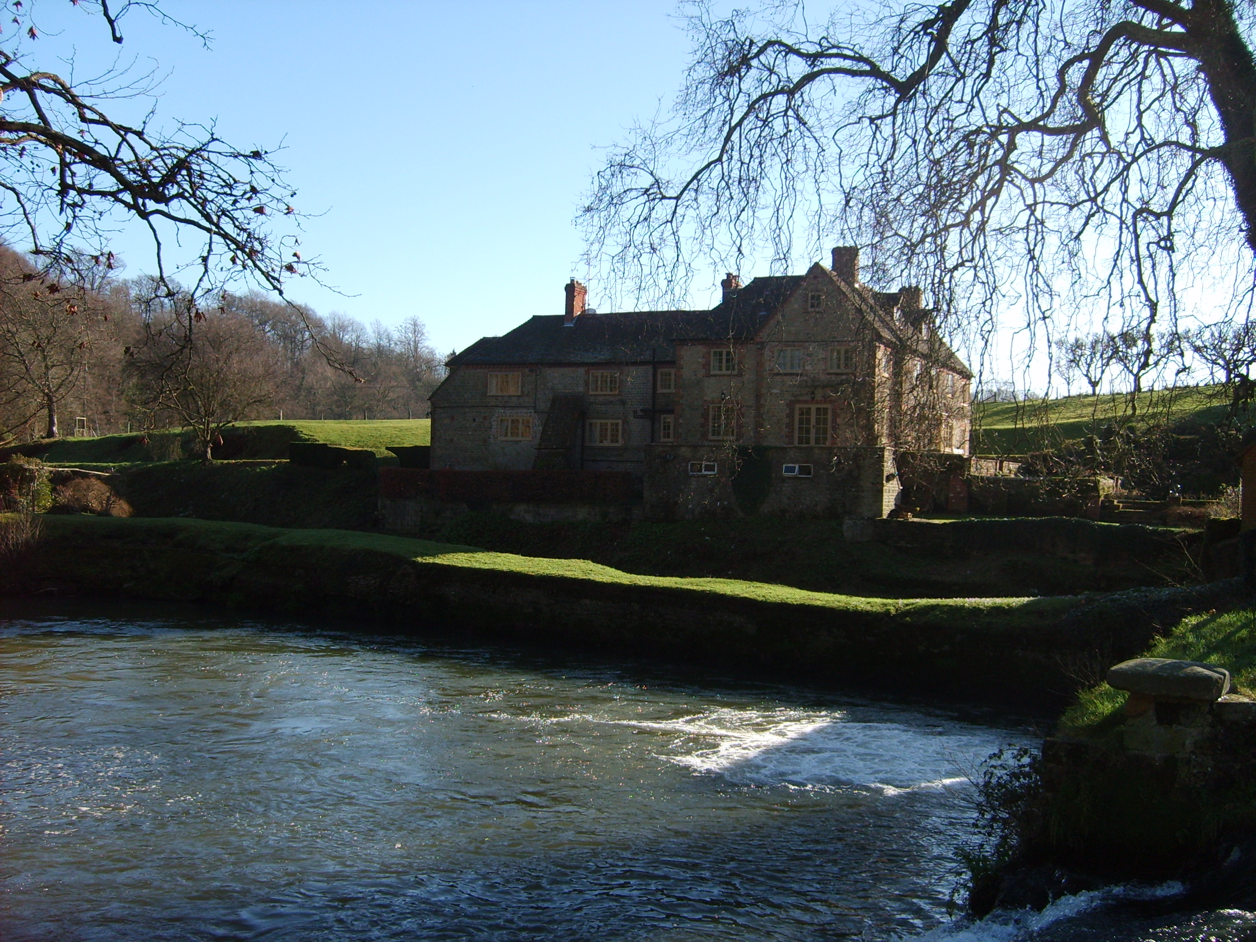 Stedham Mill, West Sussex.